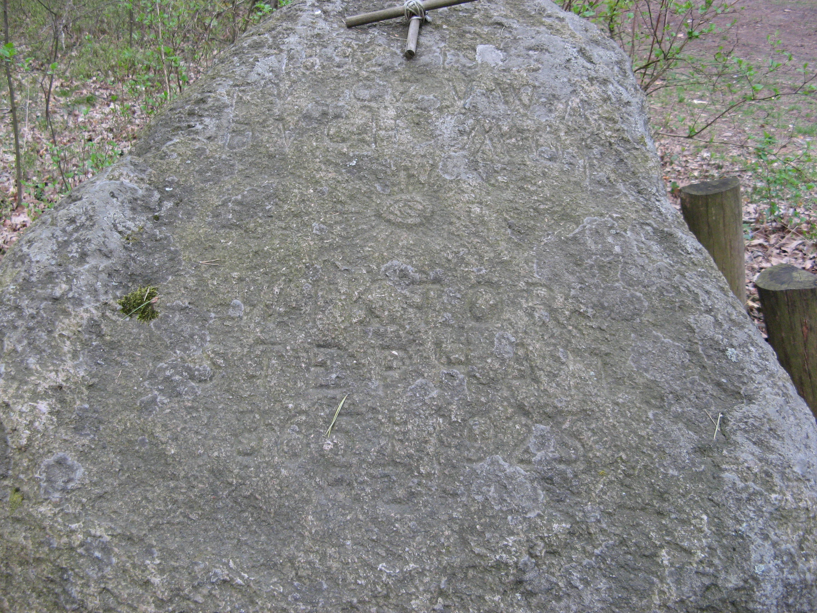 Kamień Stephana Chojnowski Park Krajobrazowy, Lasy Chojnowskie, Poland.